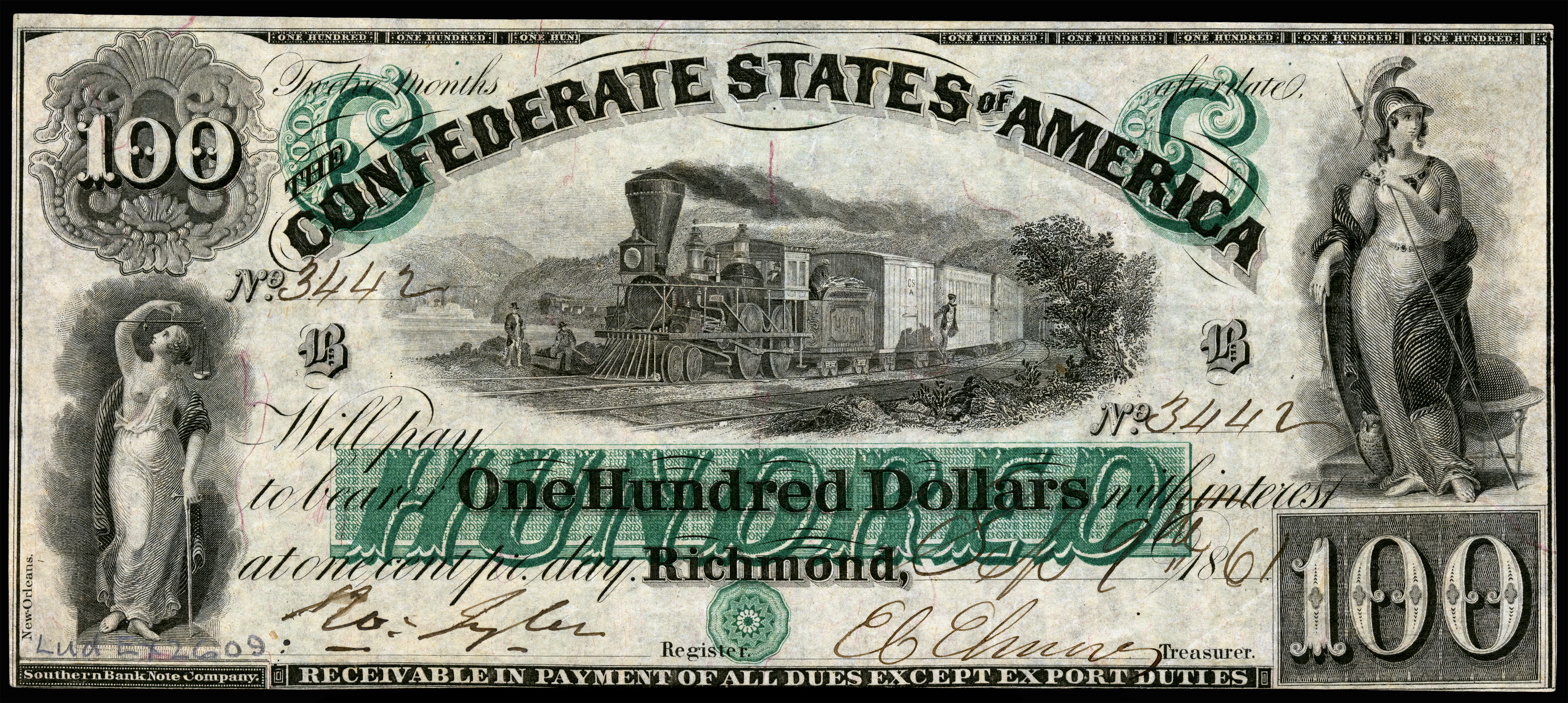 First series $100 Confederate States of America banknote. Uniface. Vignettes of Justice and Minerva.First series (Act of March 9, 1861 amended August 3, 1861), interest bearing at 3.65%, total authorized circulation $1,000,000. Between 1861–64 there were 72 different types issued with numerous varieties.